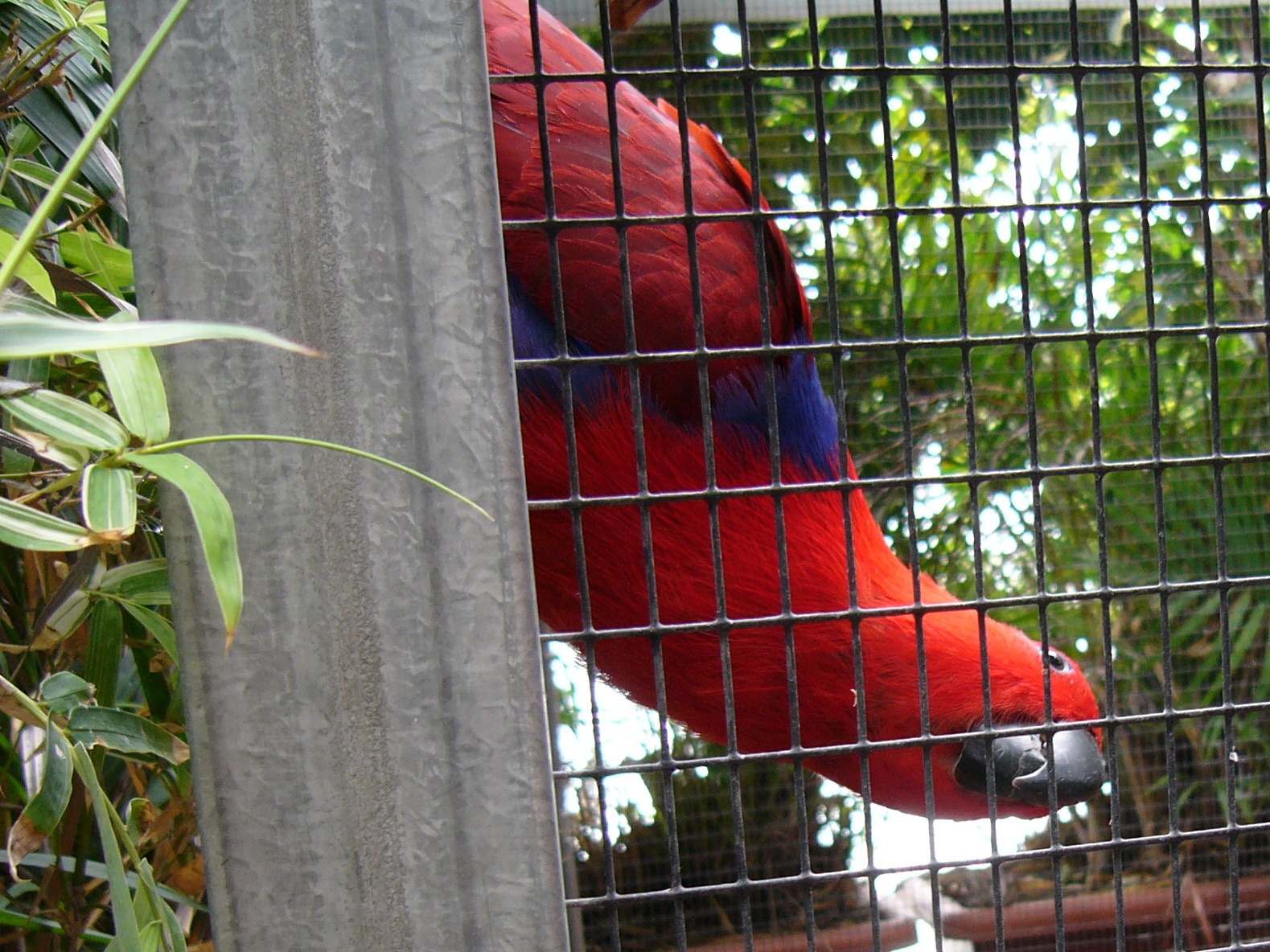 An female Eclectus Parrot in a cage at Loro Parque, Puerto de la Cruz, Tenerife, Spain. A visitor is getting ready to take a photograph of the parrot using with a mobile phone camera.